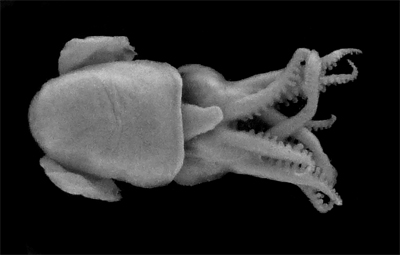 Sepiola rondeleti in the formol